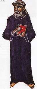 The Monge de Montaudon with a book (Bible?) from BNF 12473, folio 121r. Colour detail from Image:Monk of Montaudon.jpg